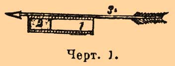 Illustration from Brockhaus and Efron Encyclopedic Dictionary (1890—1907)